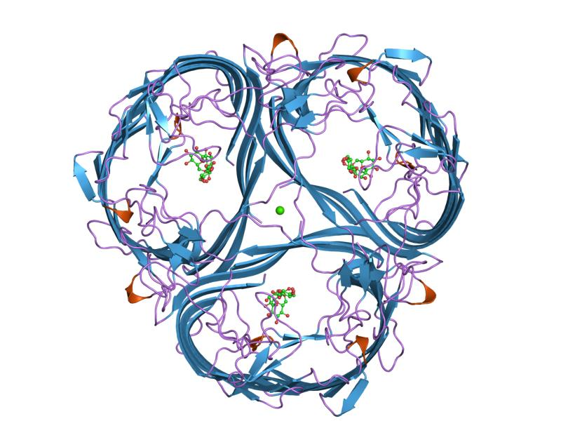 Cartoon representation of the molecular structure of protein registered with 2mpr code.